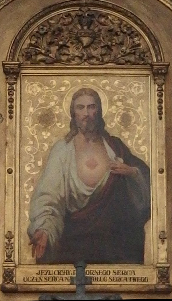 Walenty Jakubiak and Stanisław Batowski Kaczor picture